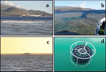 Emissions of Tagoro submarine volcano near El Hierro in Canary Islands. Signals observed in the surface waters as a consequence of the volcanic emissions. (a) Surface seawater bubbling (November 5, 2011). (b) Colour patches in the surface waters. (c) A 10-m emerged high bubble (November 5, 2011). (d) Light green seawater surface.